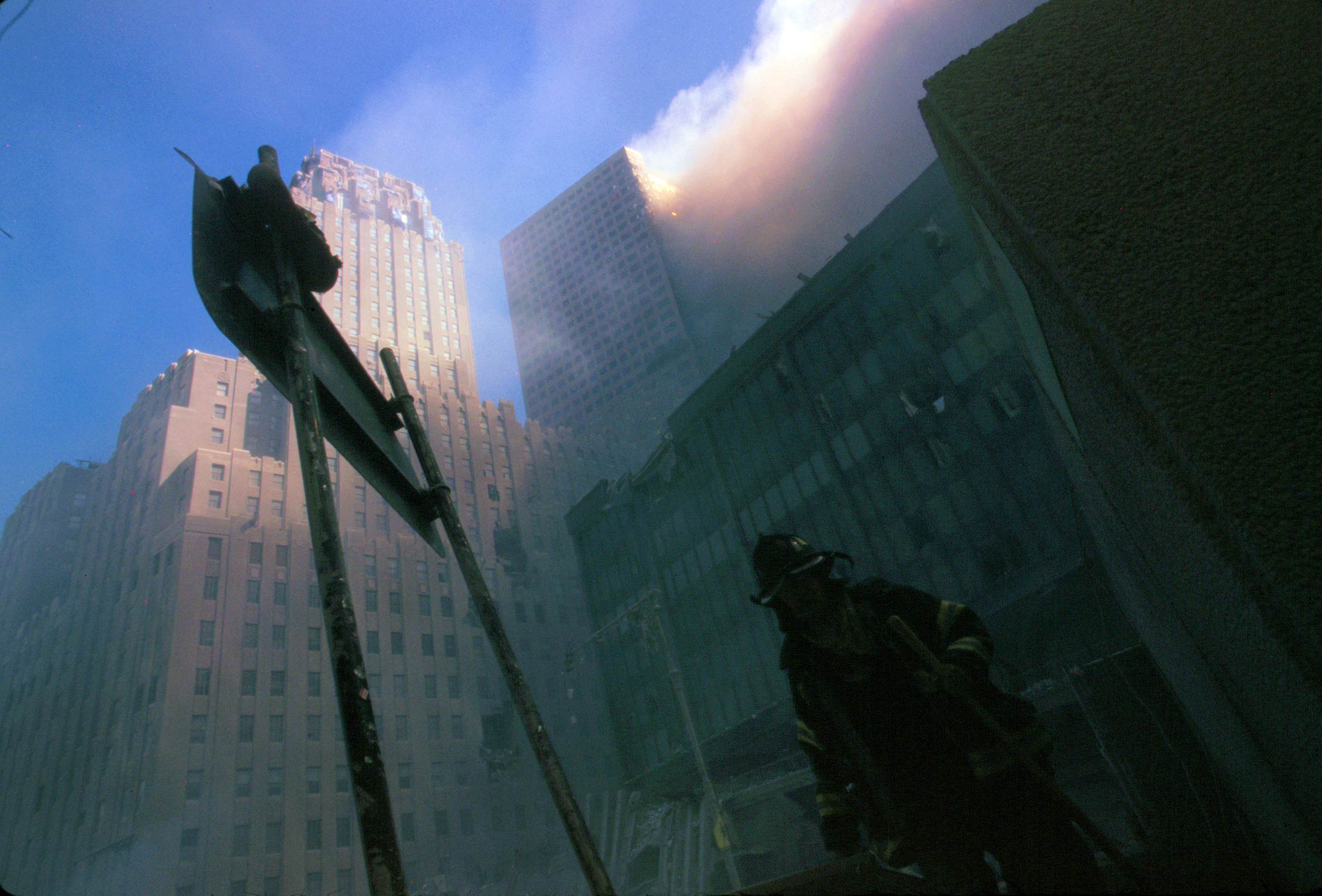 Fire fighter at base of burning building following September 11th terrorist attack on World Trade Center, New York City. Sept. 11, 2001. Image. Retrieved from the Library of Congress, (Accessed September 03, 2016.) Call Number: LC-A05- F35 [item] [P&P] Forms part of: Collection of unattributed photographs ... The 250 color slides made at the World Trade Towers in New York City on September 11, 2001, received from the New York District Attorney's office from an unattributed photographer, are in the public domain. Privacy and publicity rights may apply. These slides were received from the New York District Attorney's office with the photographer relinquishing any and all copyright and right of attribution. Therefore, the photographer's name will not be associated with these photographs. Note – This image has been digitally adjusted for one or more of the following: - fade correction, - color, contrast, and/or saturation enhancement - selected spot and/or scratch removal - cropped for composition and/or to accentuate subject matter - straighten image'